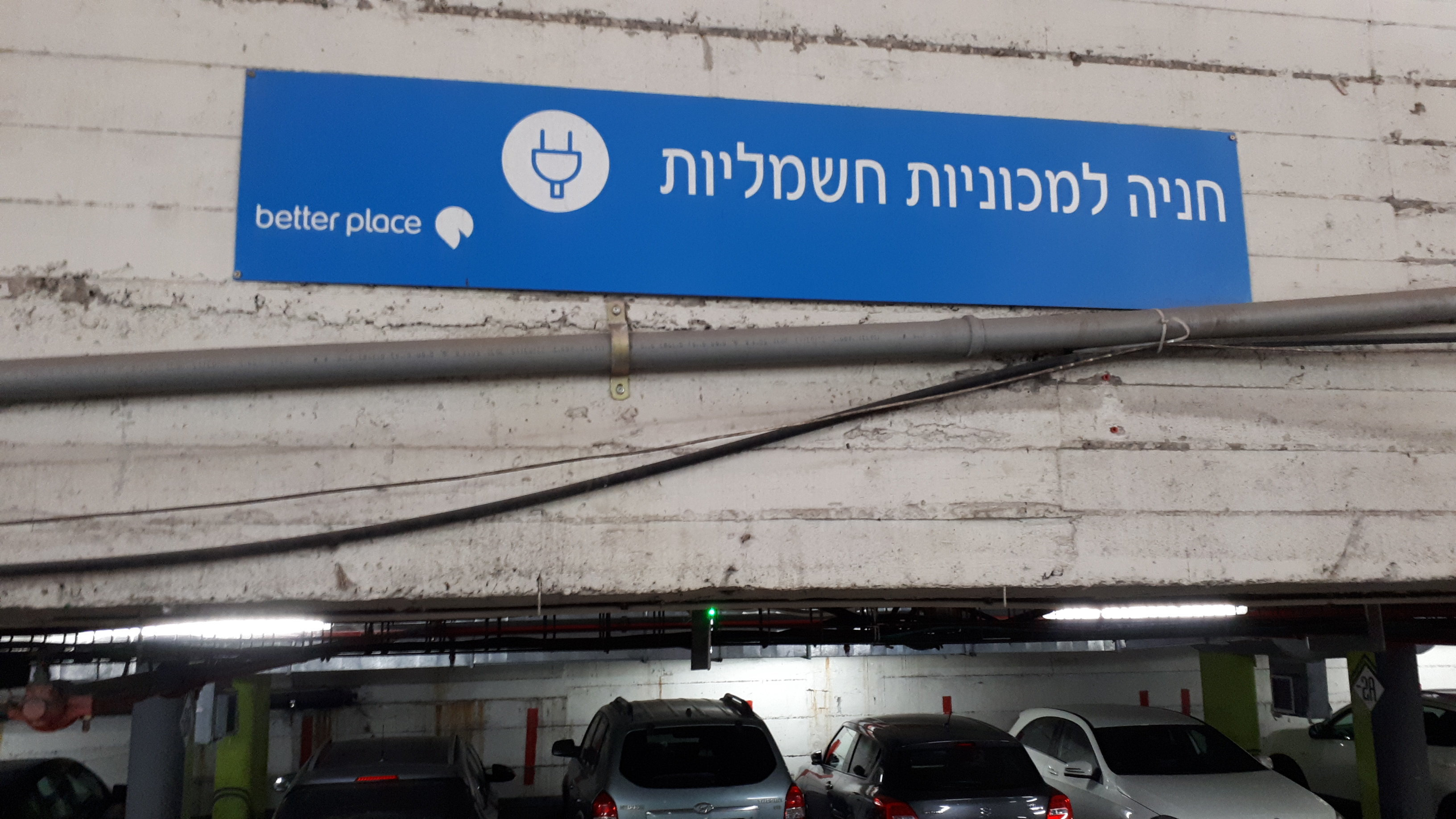 Old direction sign, showing the direction to an EV parking space